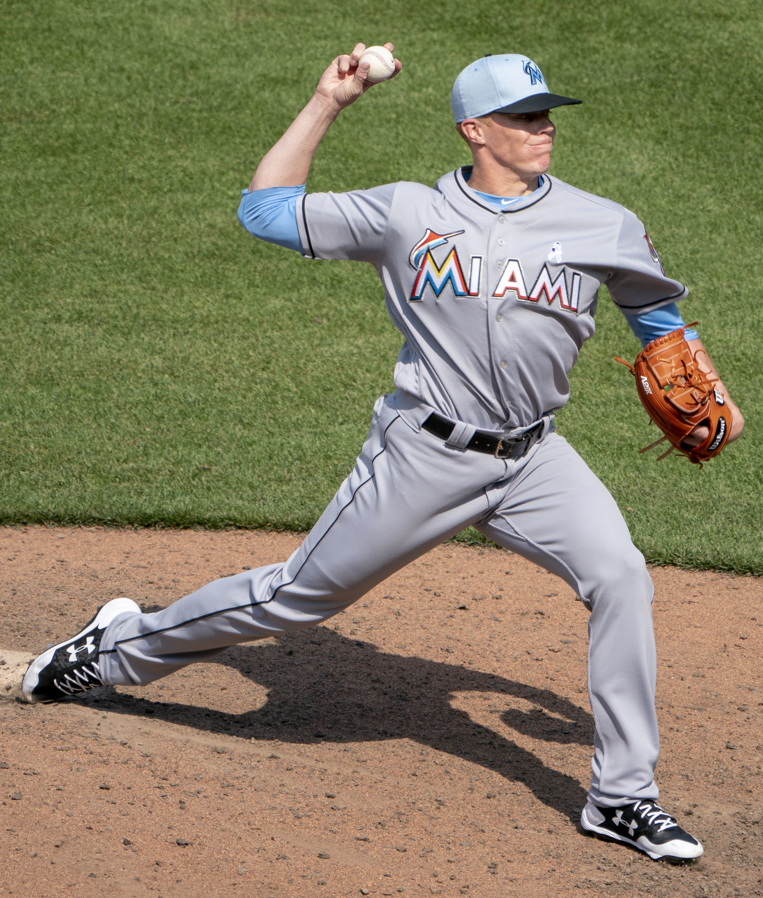 Marlins at Orioles 6/17/18